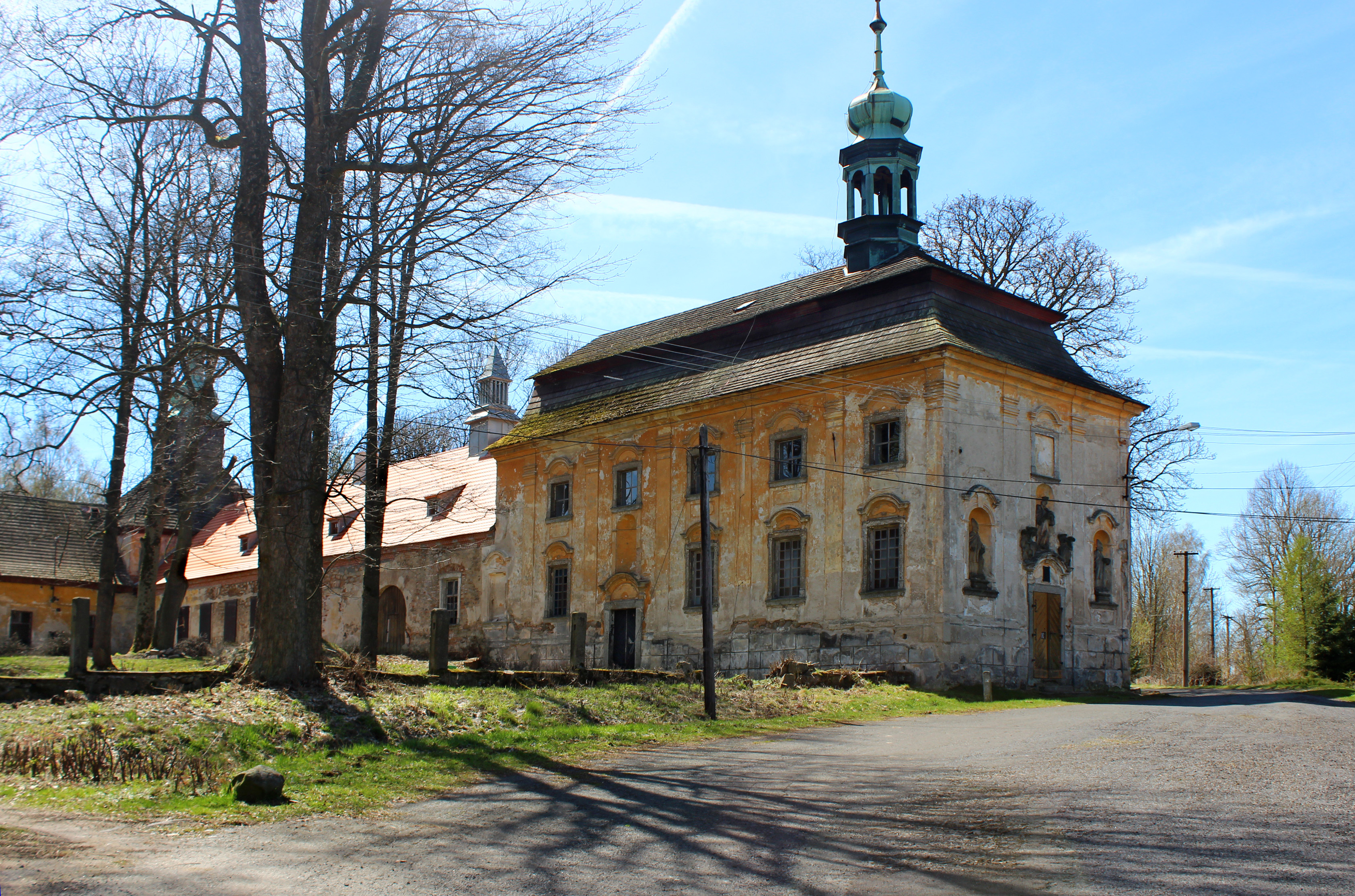 Javorná Castle in Javorná, part of Bochov, Czech Republic